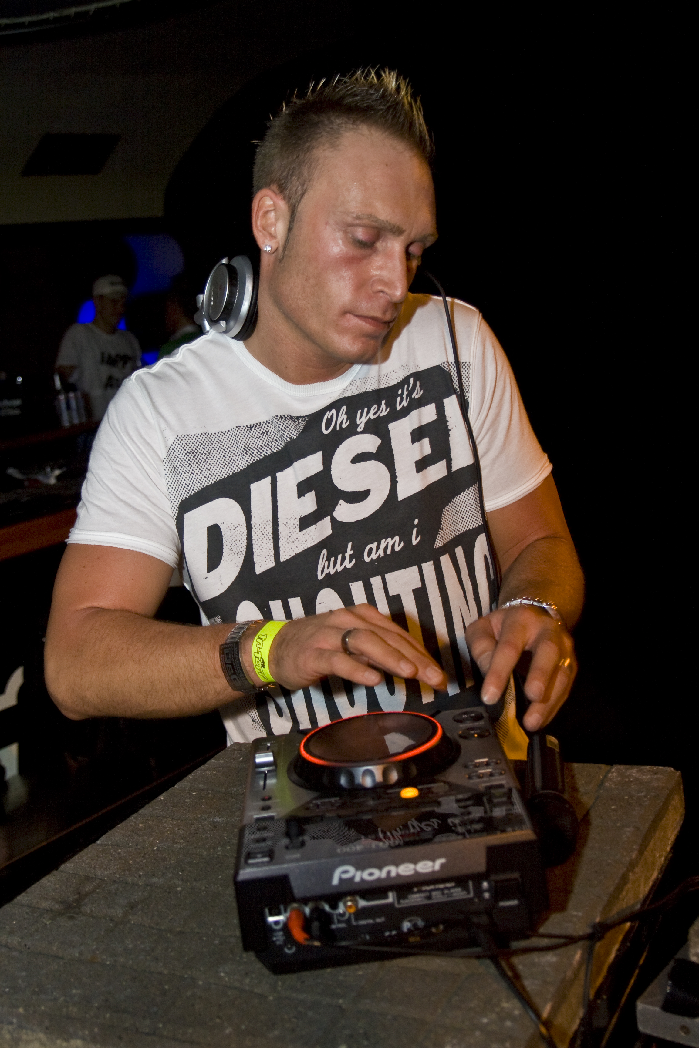 DJ Dean live at TECHNO4EVER.fm Birthday Rave at Ta-Töff in Bevern